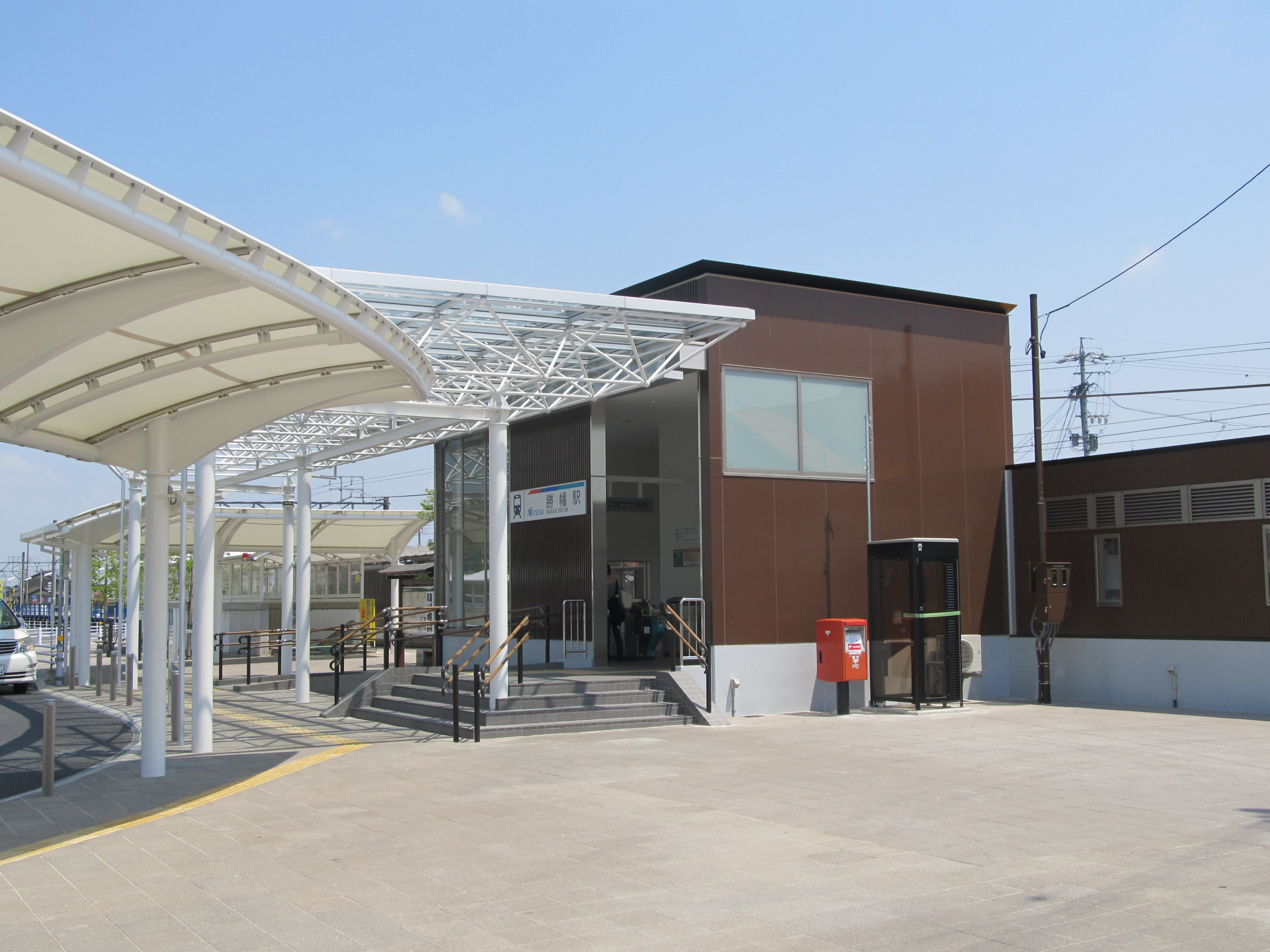 Nagoya Railroad Tsushima Line Shobata Station Northgate